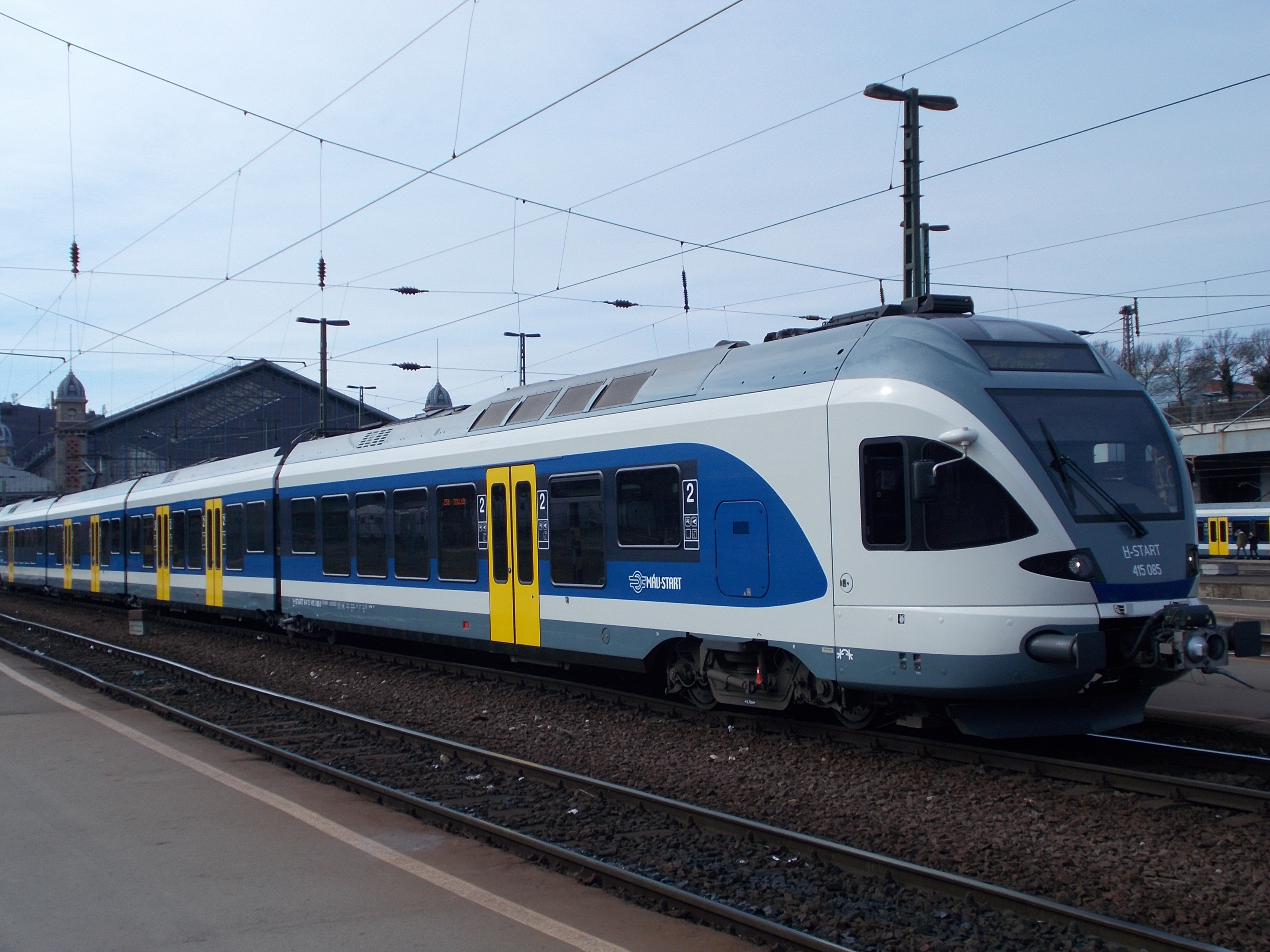 Budapest Western railway station, track #16, Z50 train, 100a line depart - District VI of Budapest.